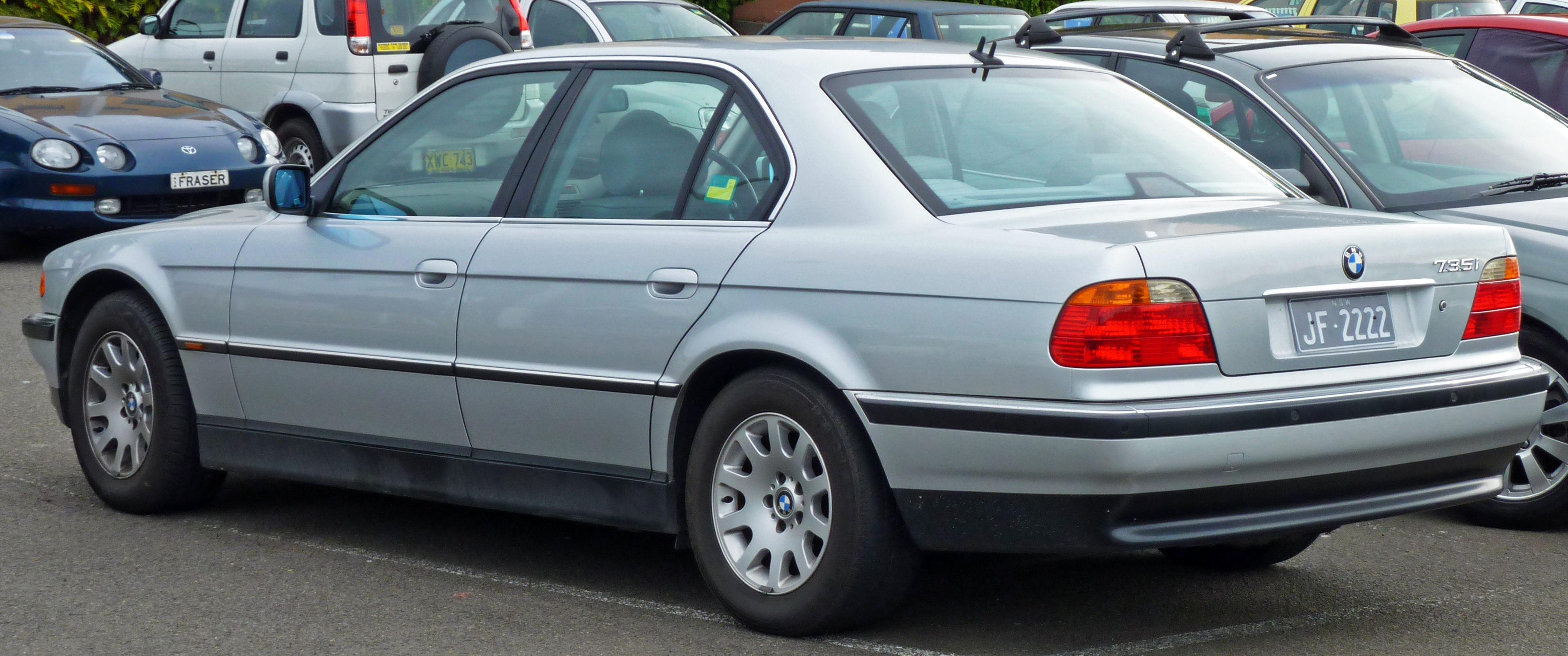 1998–2000 BMW 735i (E38) sedan. Photographed in Woolooware, New South Wales, Australia.